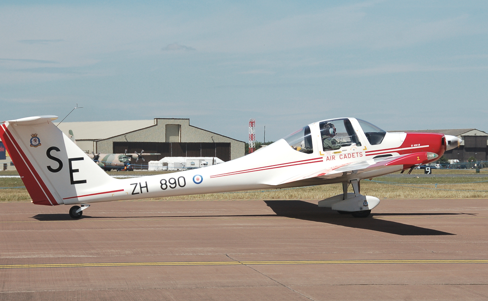 Grob G 109B Vigilant T.1 of the RAF (registration ZH890/SE) at the 2010 Royal International Air Tattoo, Fairford, Gloucestershire, England.